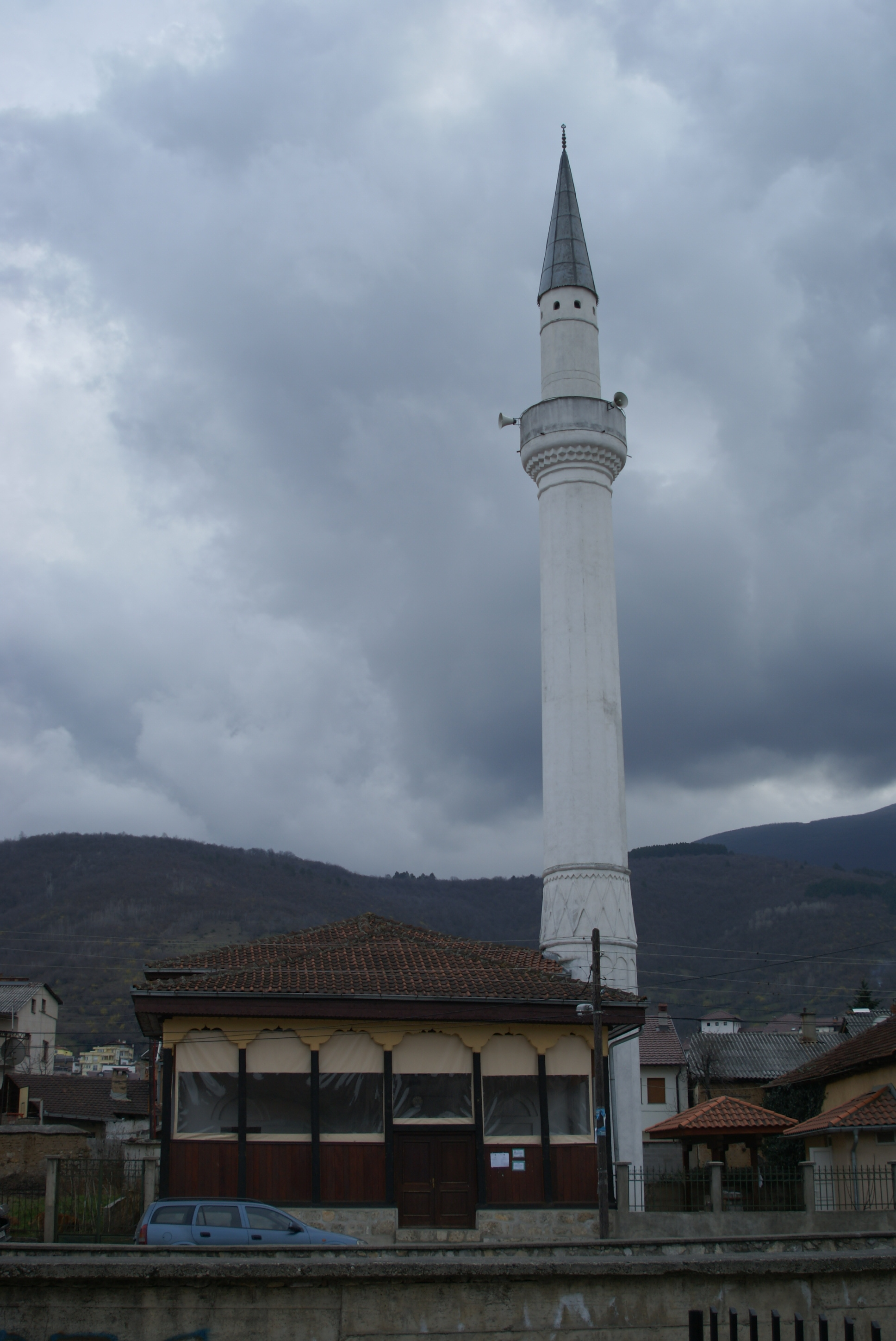 Xhamia e Suzi Efendise